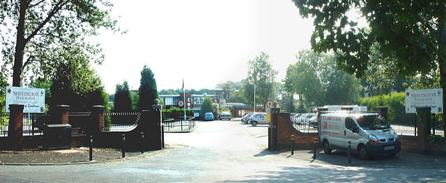 Shevington High School. Taken looking Eastwards across the B5206, opposite the entrance to Paradise Farm this local school proclaims itself a "Beacon of Excellence". Hyperbole rules! OK?